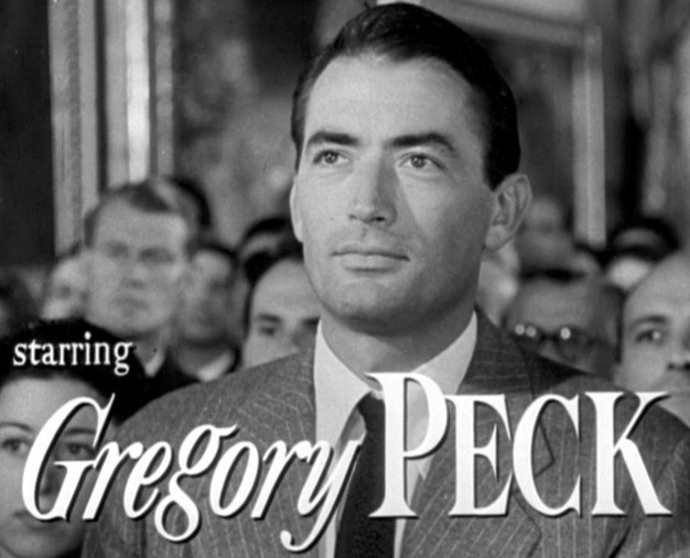 Cropped screenshot of Gregory Peck from the trailer for the film Roman Holiday.